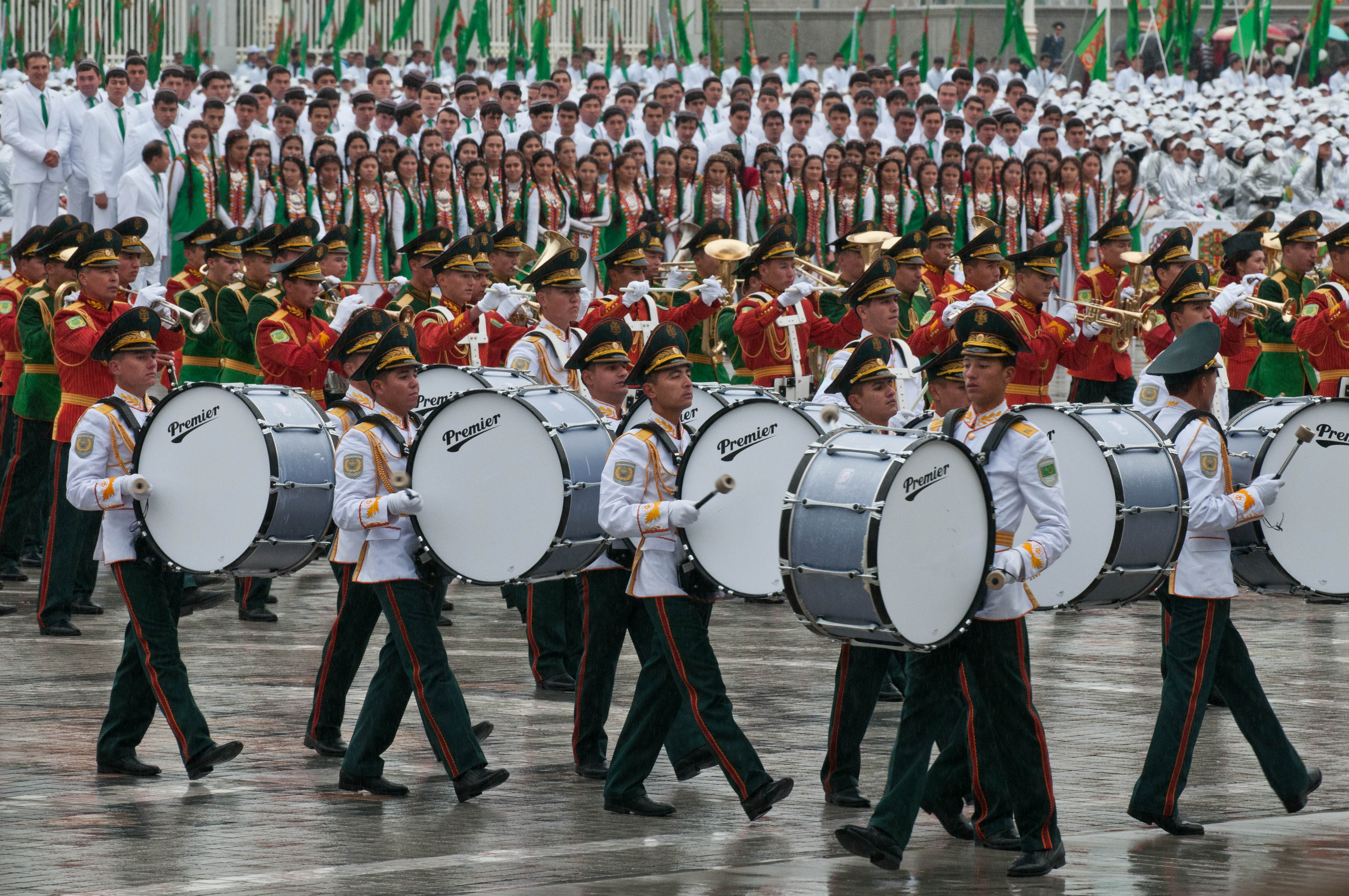 Celebrating the 20th year of independence in Turkmenistan. Drummers.